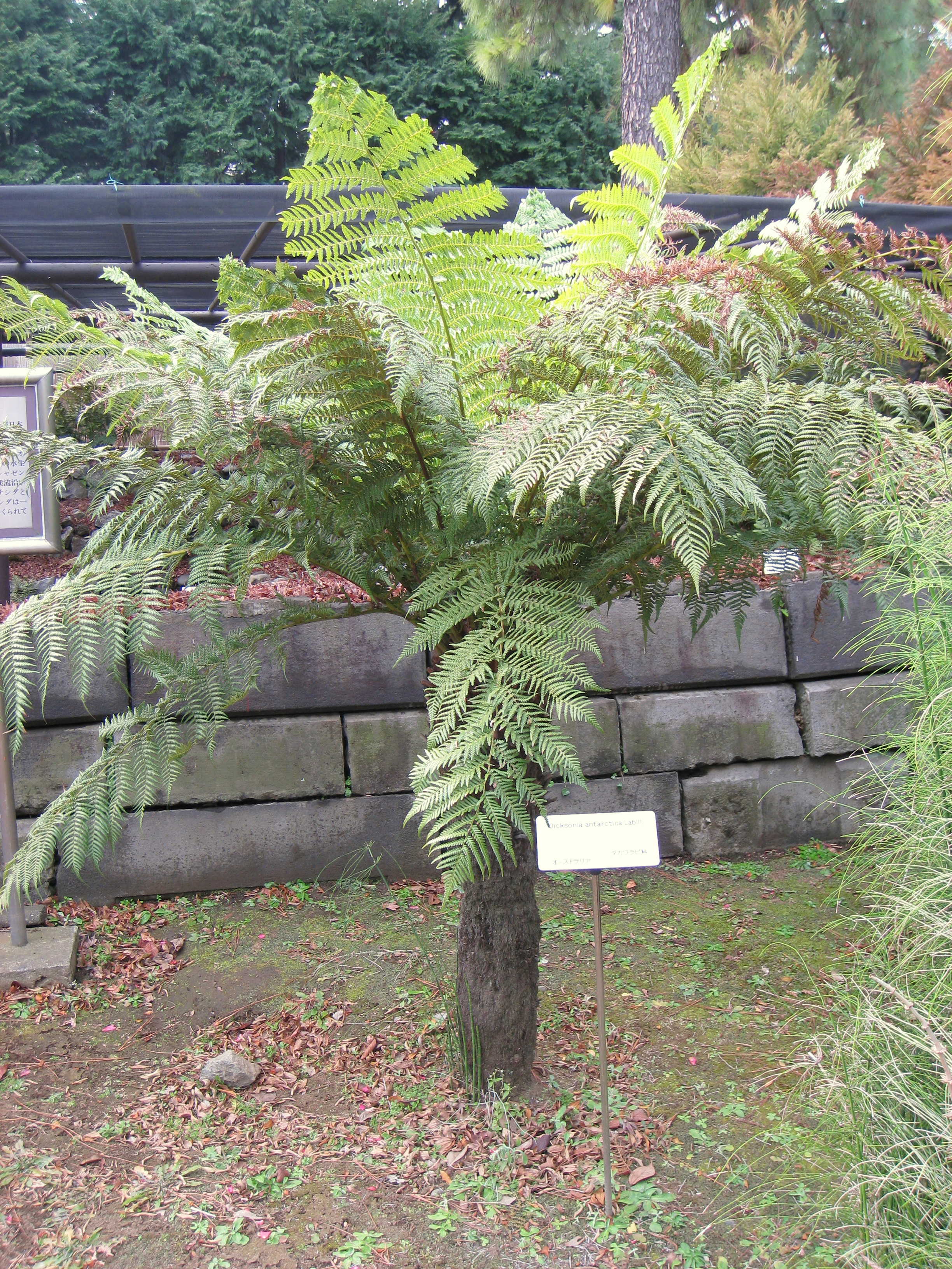 Dicksonia antarctica in Koishikawa Botanical Gardens, Tokyo, Japan.